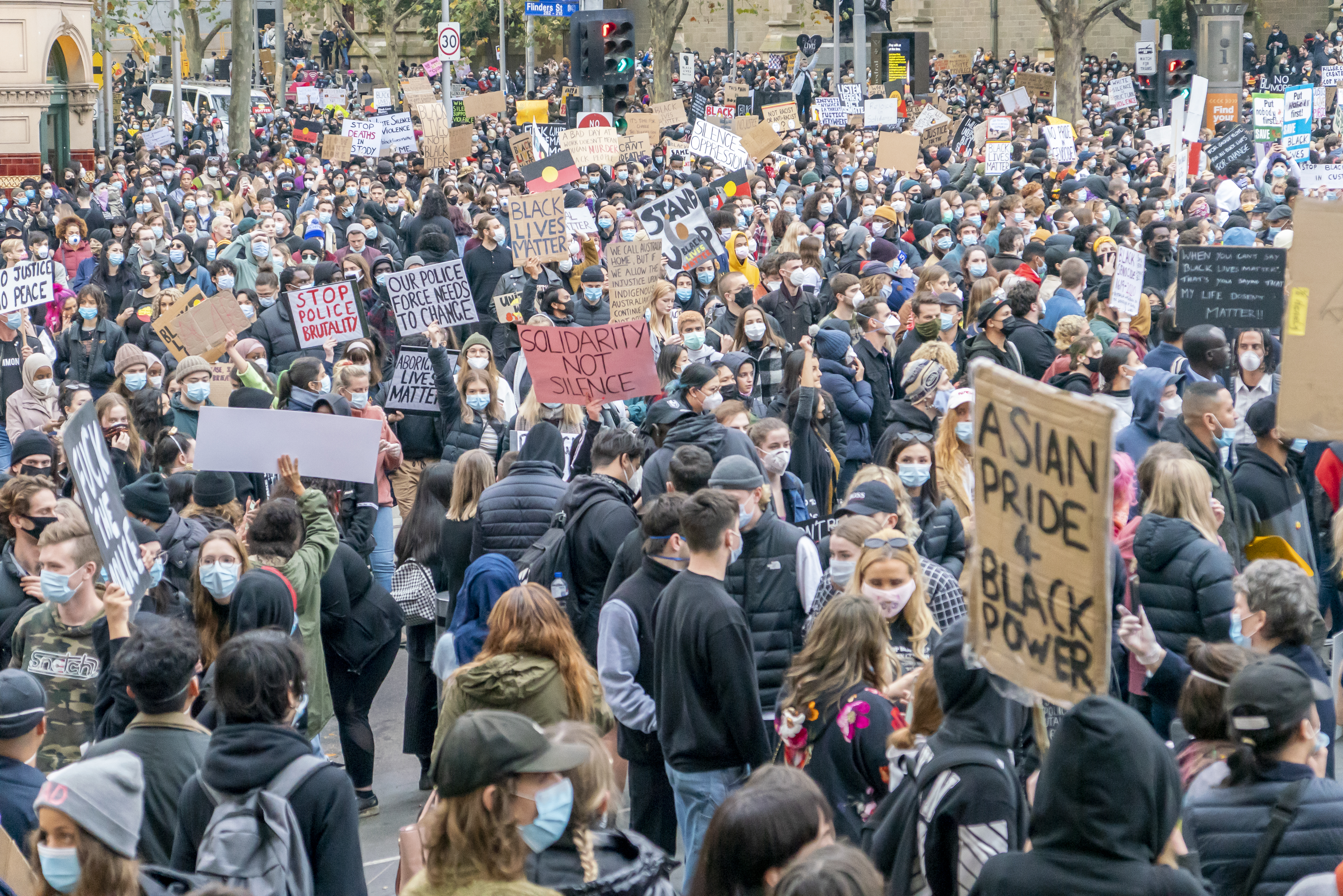 Support my work: paypal.me/matthrkac My Website